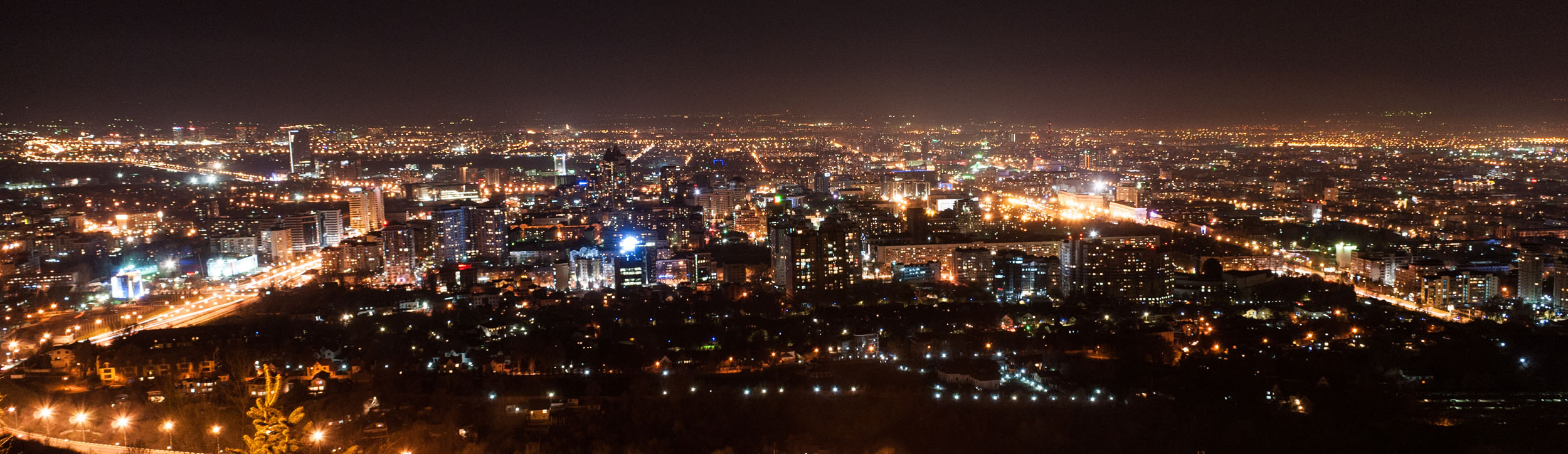 Almaty, Kok-tobe exposition 2